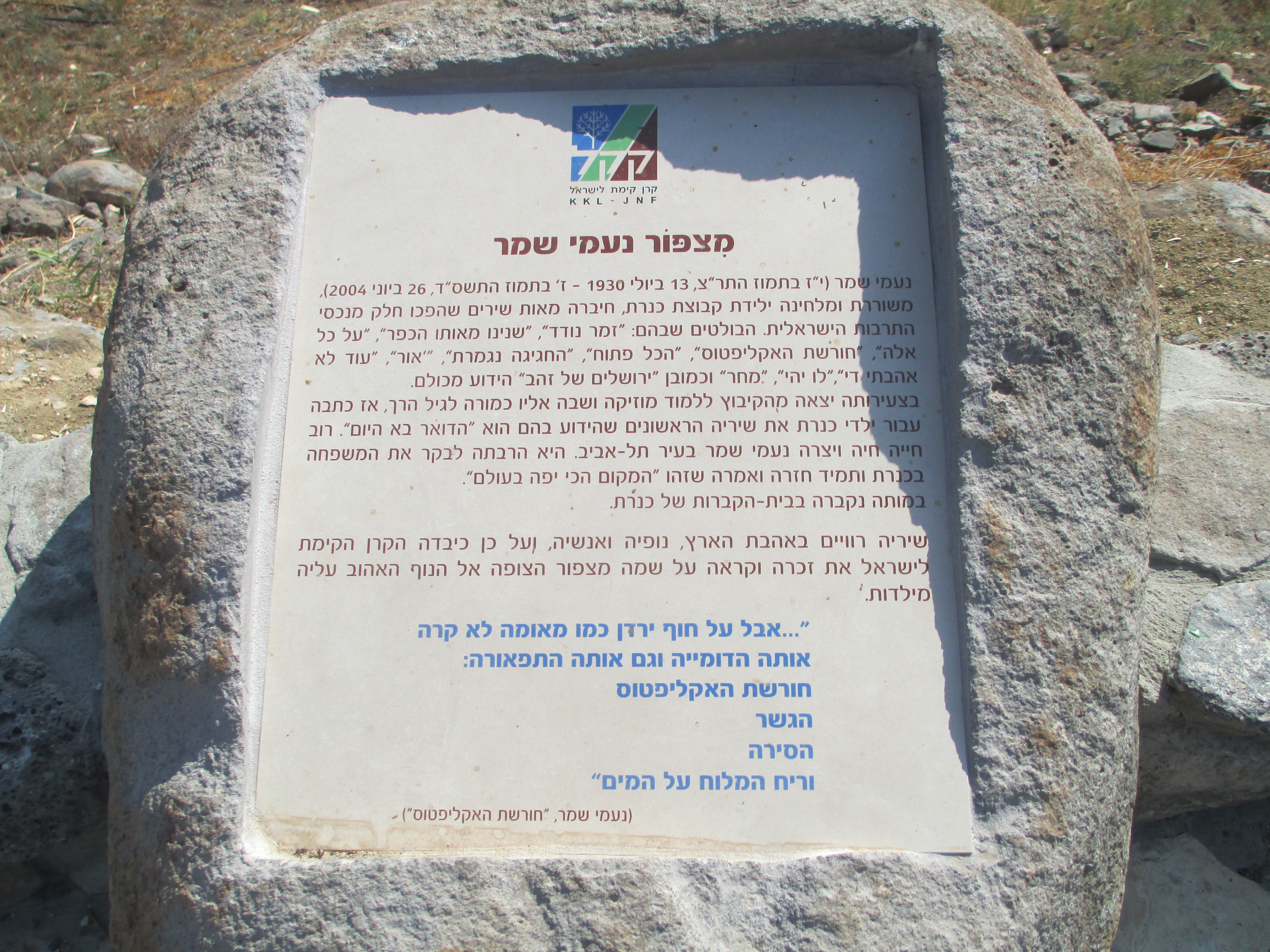 Naomi Shemer lookout in Ein Poria